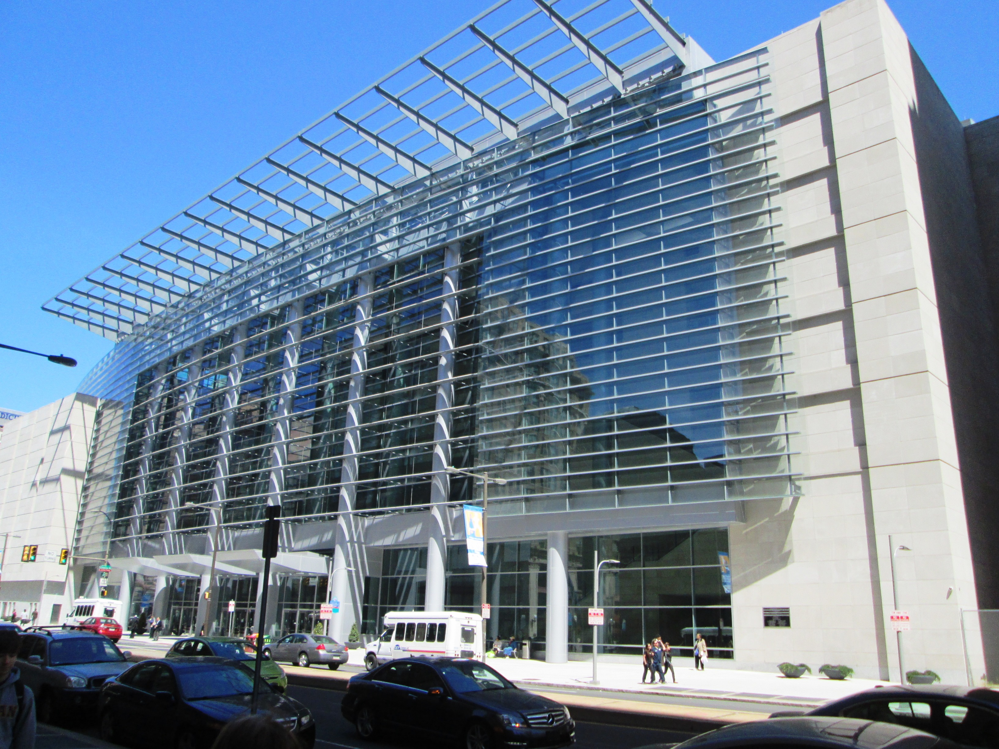 The Pennsylvania Convention Center's Broad Street Expansion project's entrance on Broad Street between Arch and Race Streets in Center City, Philadelphia was designed by TVSDesign and completed in 2011.